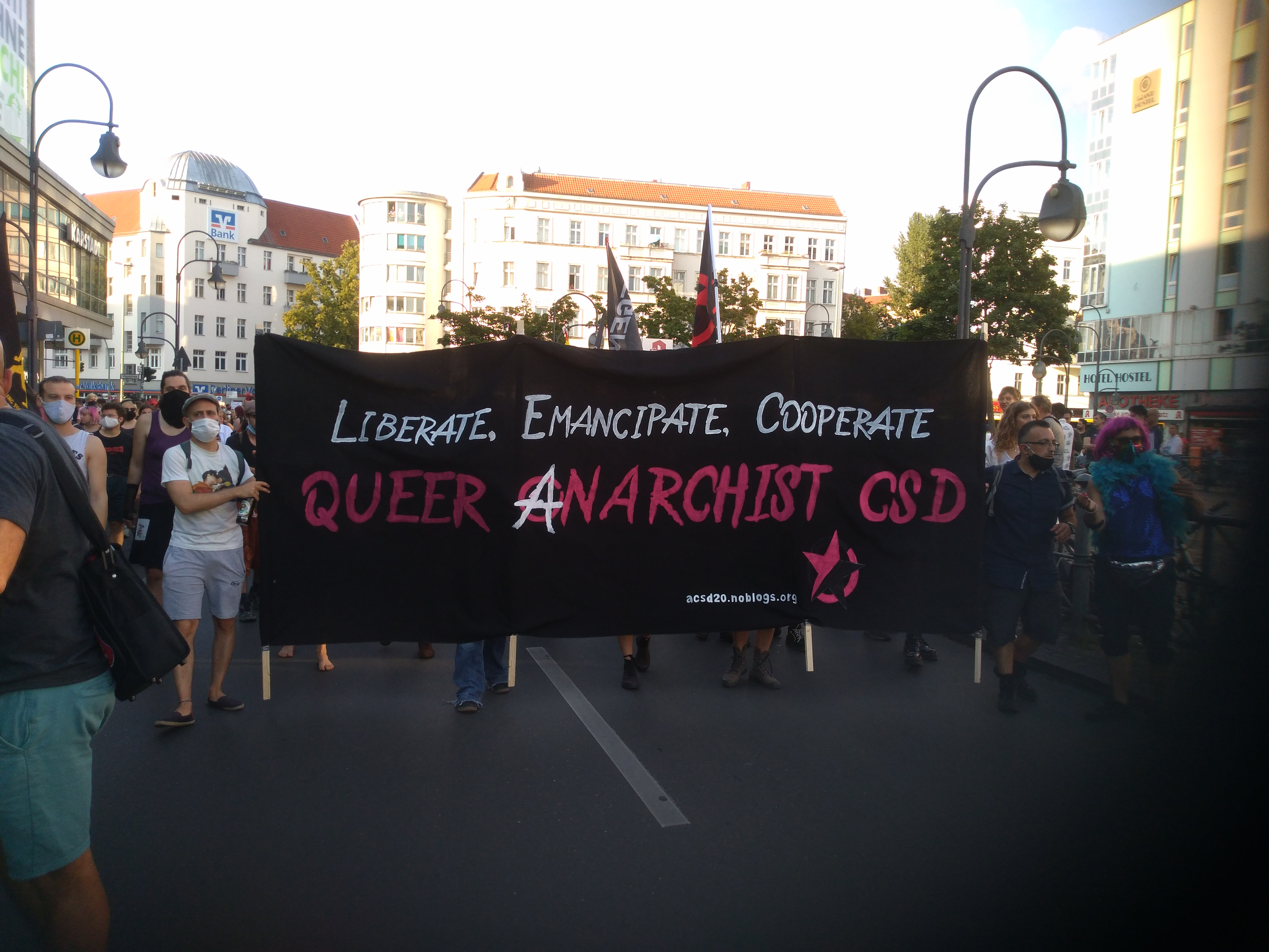 Queer Anarchist CSD Berlin Neukölln 2020